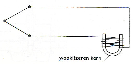 Thermo electrical security